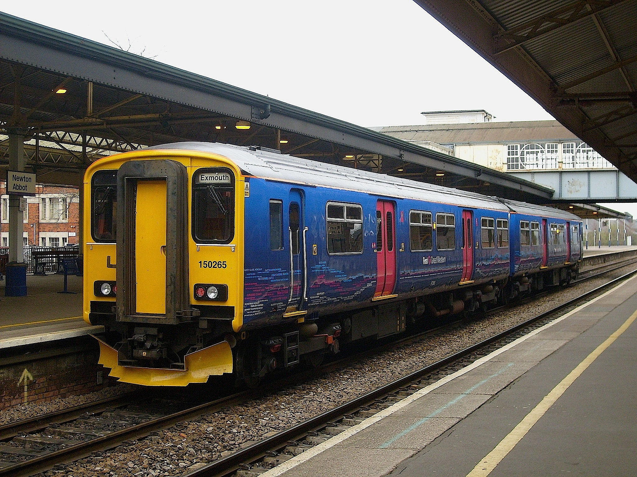 First Great Western recently refurbished Class 150/2 No. 150265, in Local Lines livery, at Newton Abbot